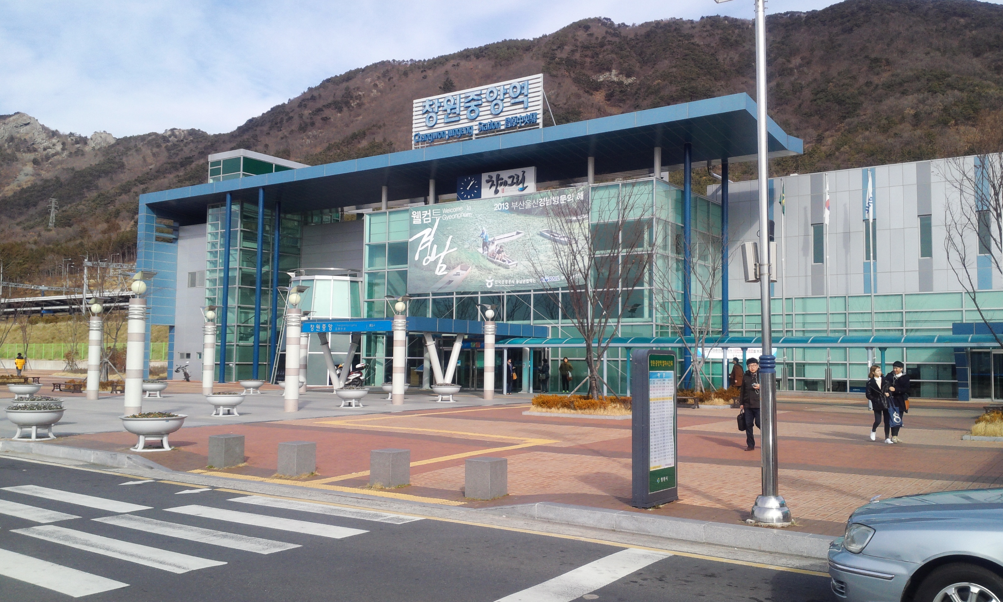 Changwon Central Railway Station on December 15th 2013